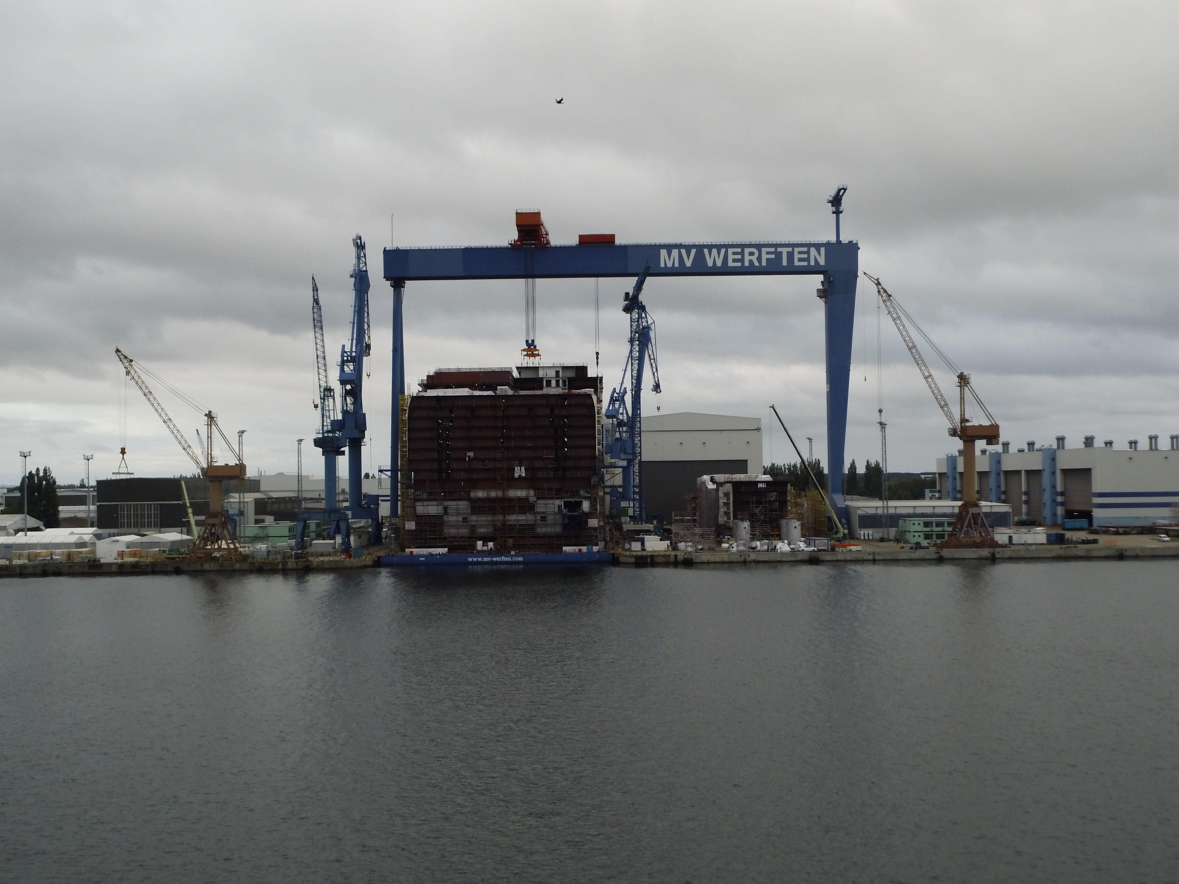 Global Dream under construction at MV Werften Warnemünde.